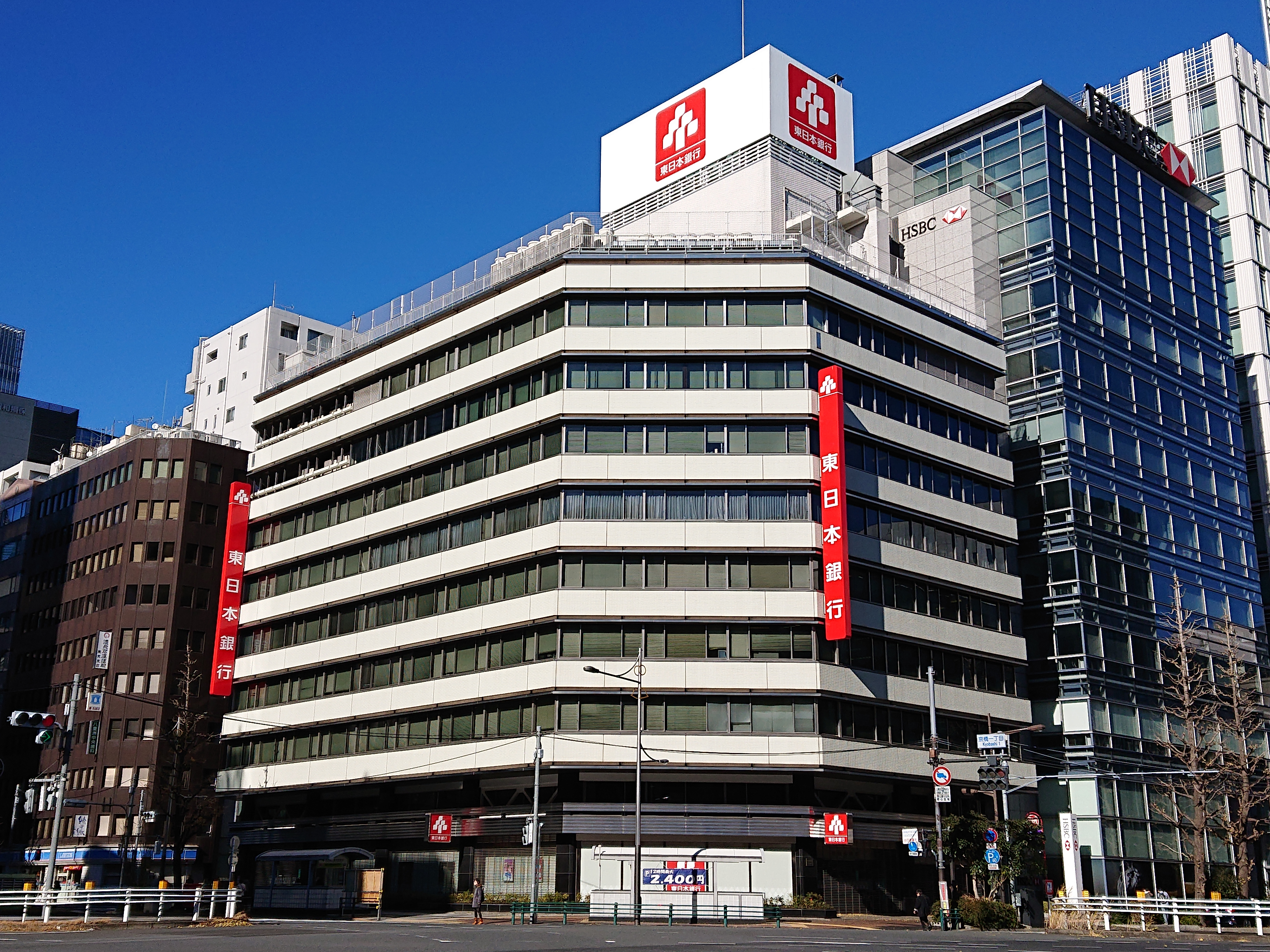 Higashi-Nippon Bank headquarters, located at 3-11-2 Nihonbashi, Chuo, Tokyo, Japan